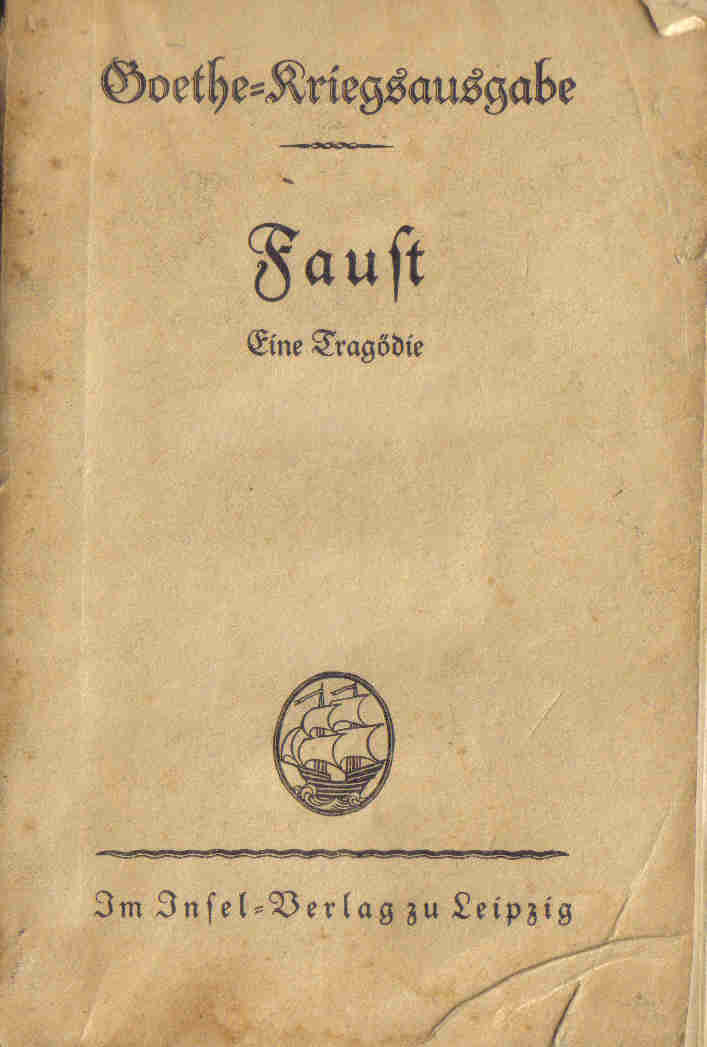 Faust by Goethe. War edition by Insel, Leipzig